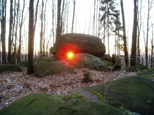 "Thors Amboss - die steinerne Himmelsscheibe von Neusalza-Spremberg" Wintersonnenwende Sonnenaufgang 2009